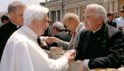 Picture scanned(PSP) ordered by praelat dillinger; free of use